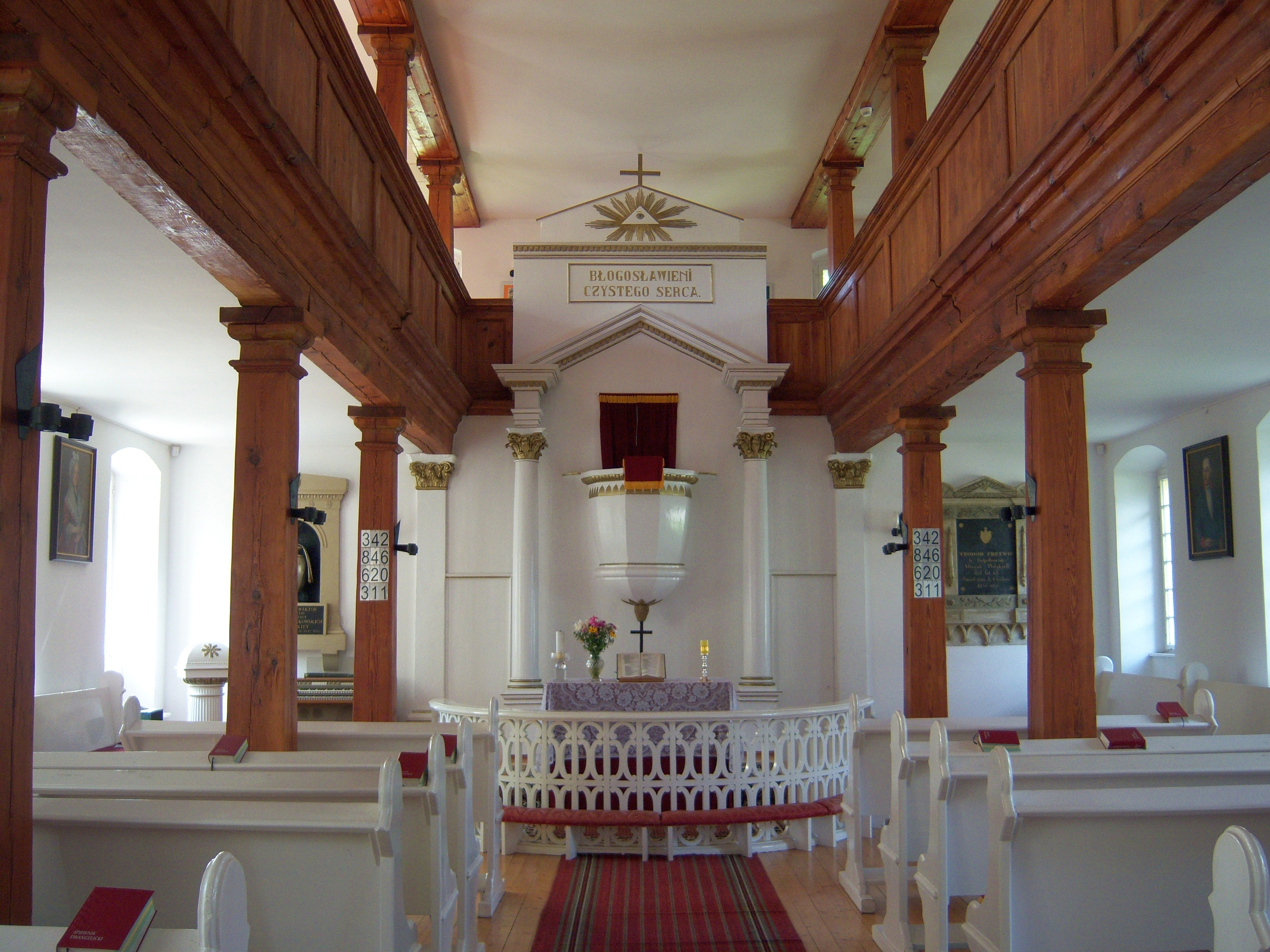 Reformed Church in Żychlin - interior/altair